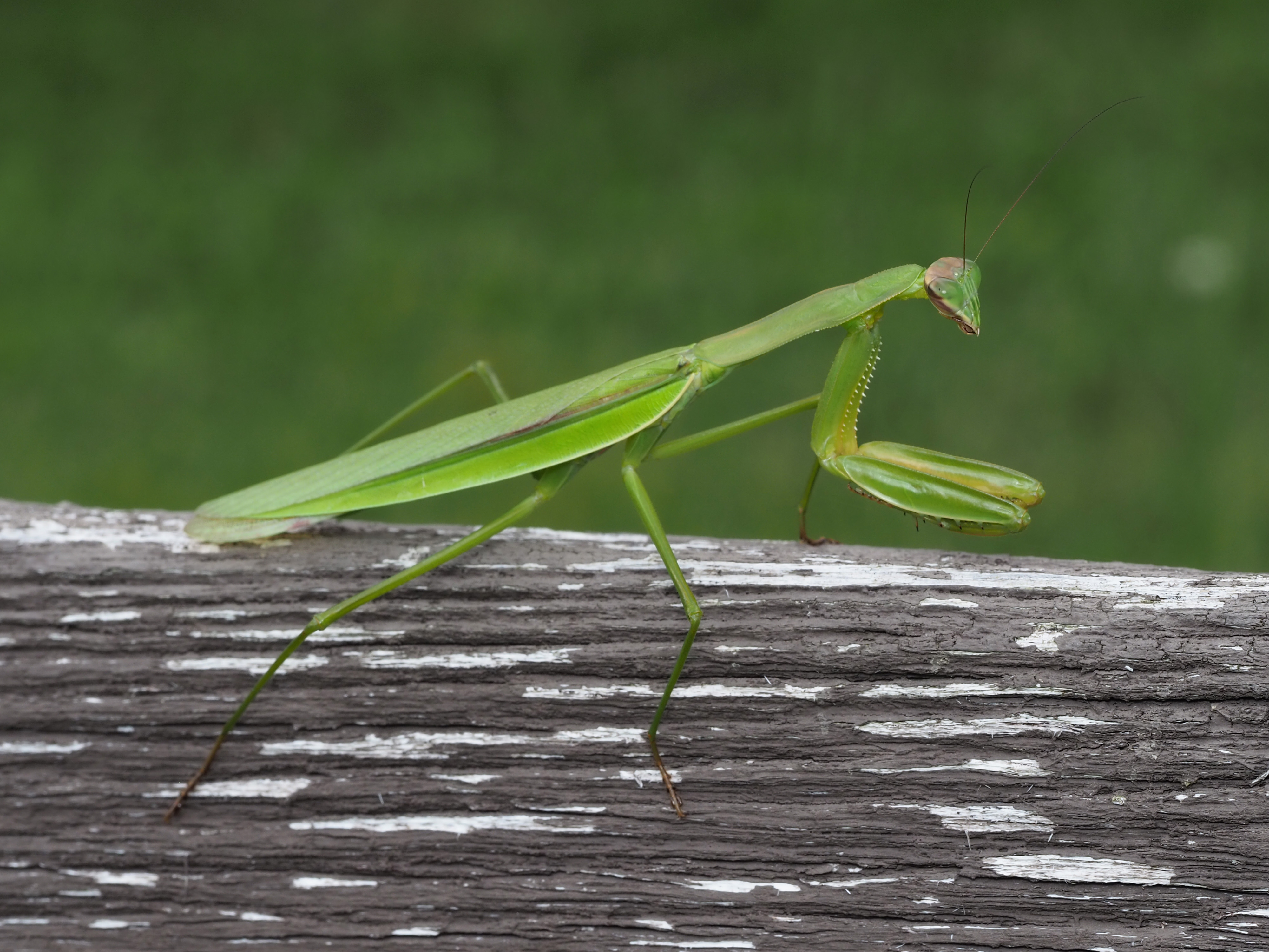 Chinese Mantis (Tenodera sinensis) in Pennsylvania